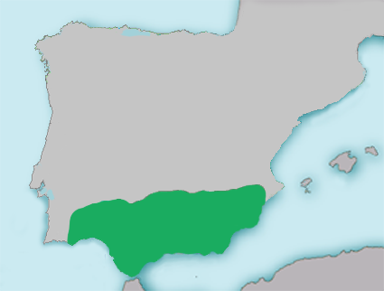 Distribution map of Luciobarbus sclateri in Iberian Peninsula.